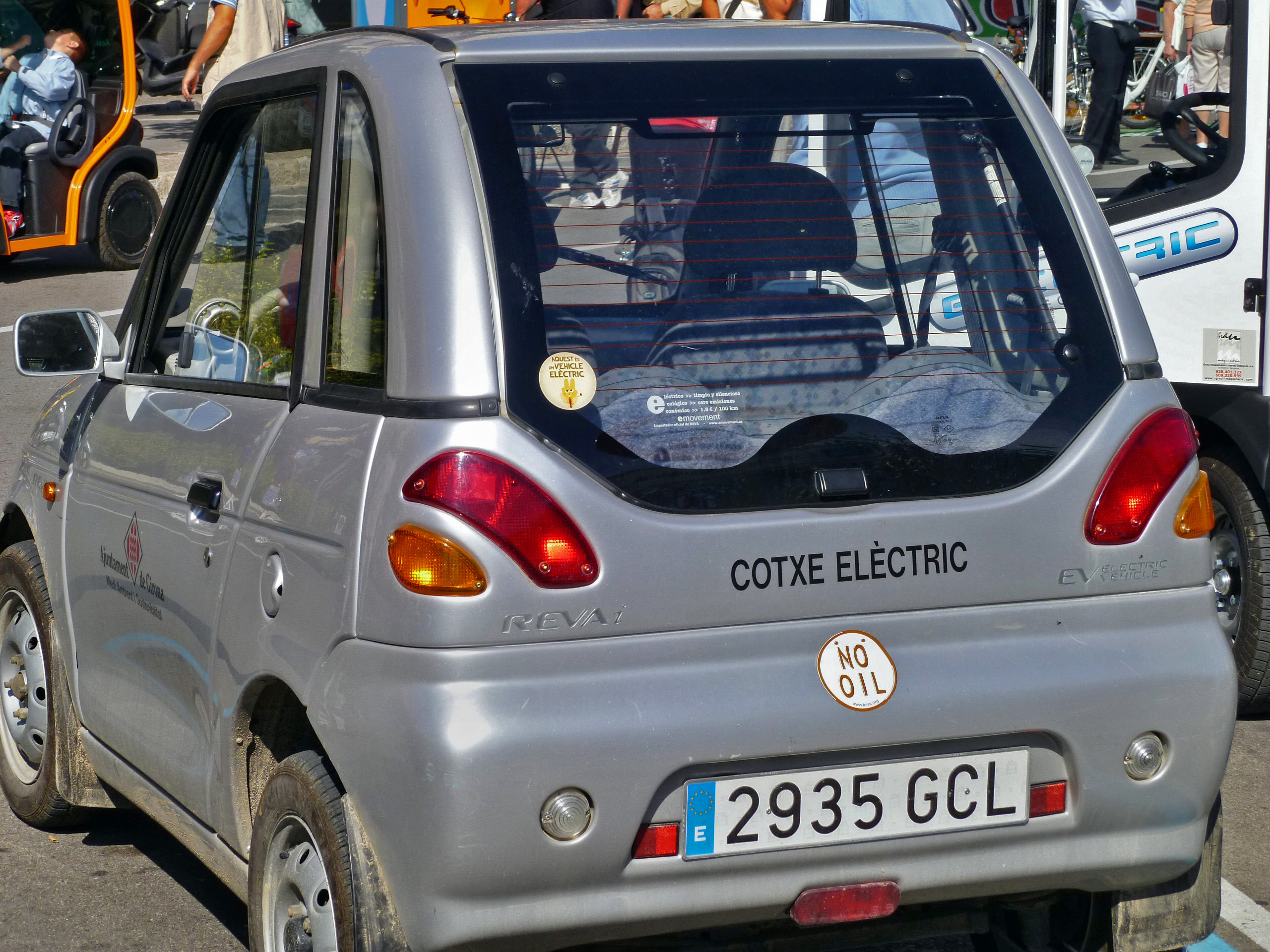 A electric-powered micro car : the REVAi; Girona, Spain